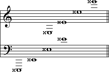 Notes, E Double Sharp